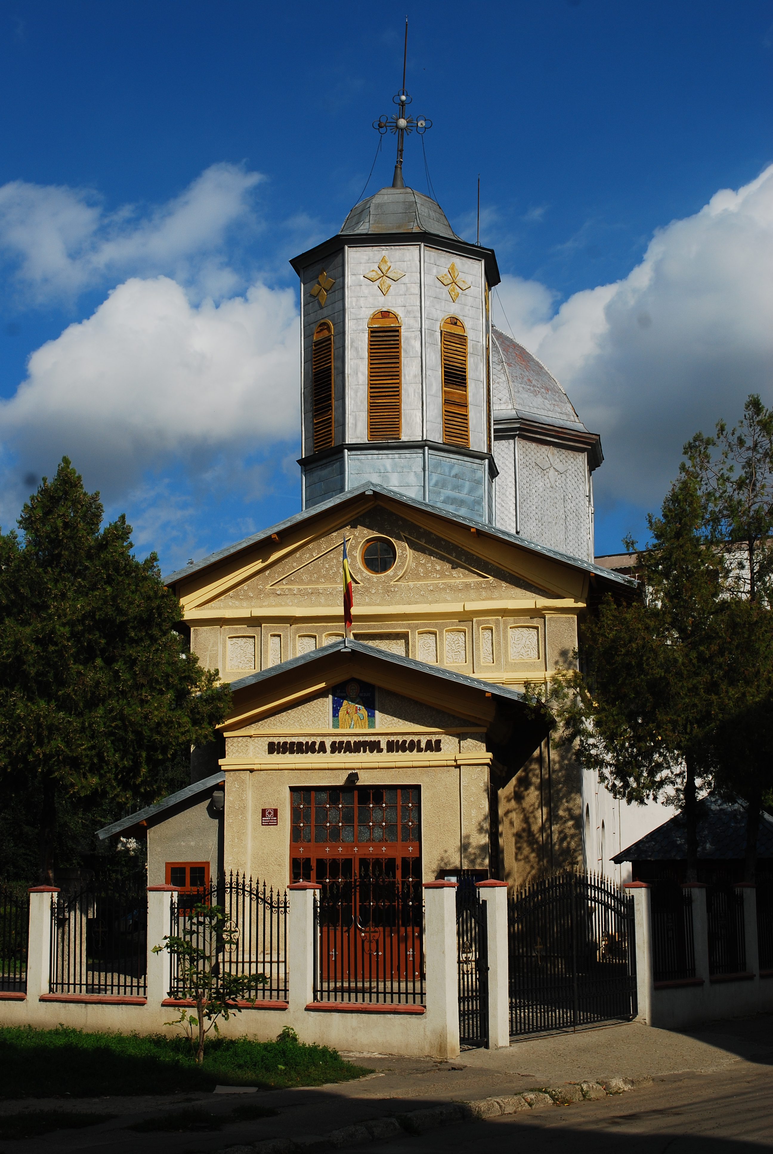 Saint Nicholas' church in Dorobanţi neighbourhood, Buzău, Romania